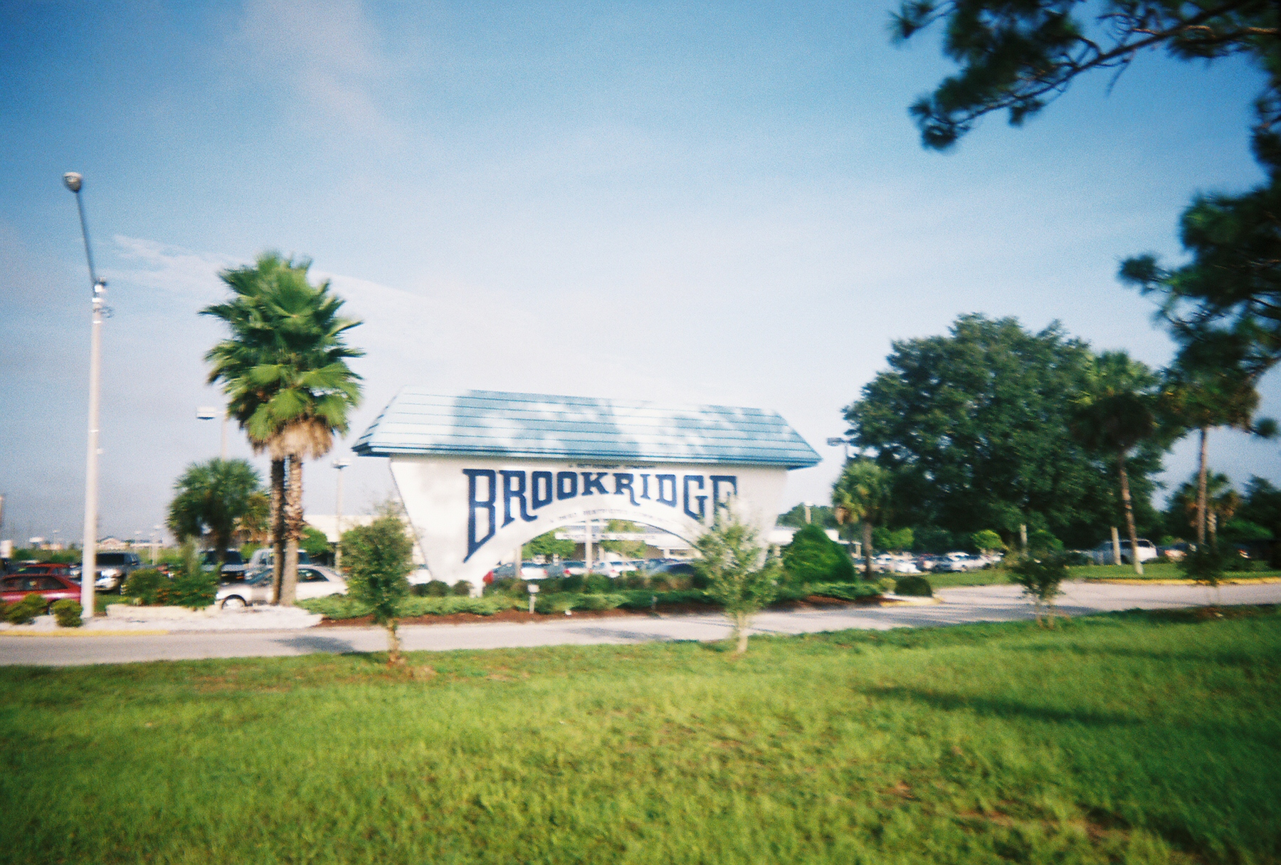 Sign at the Gateway to Brookridge, Florida at the intersection of Florida State Road 50 and Hernando County Road 585(Barclay Avenue). Taken by me on September 2, 2008.